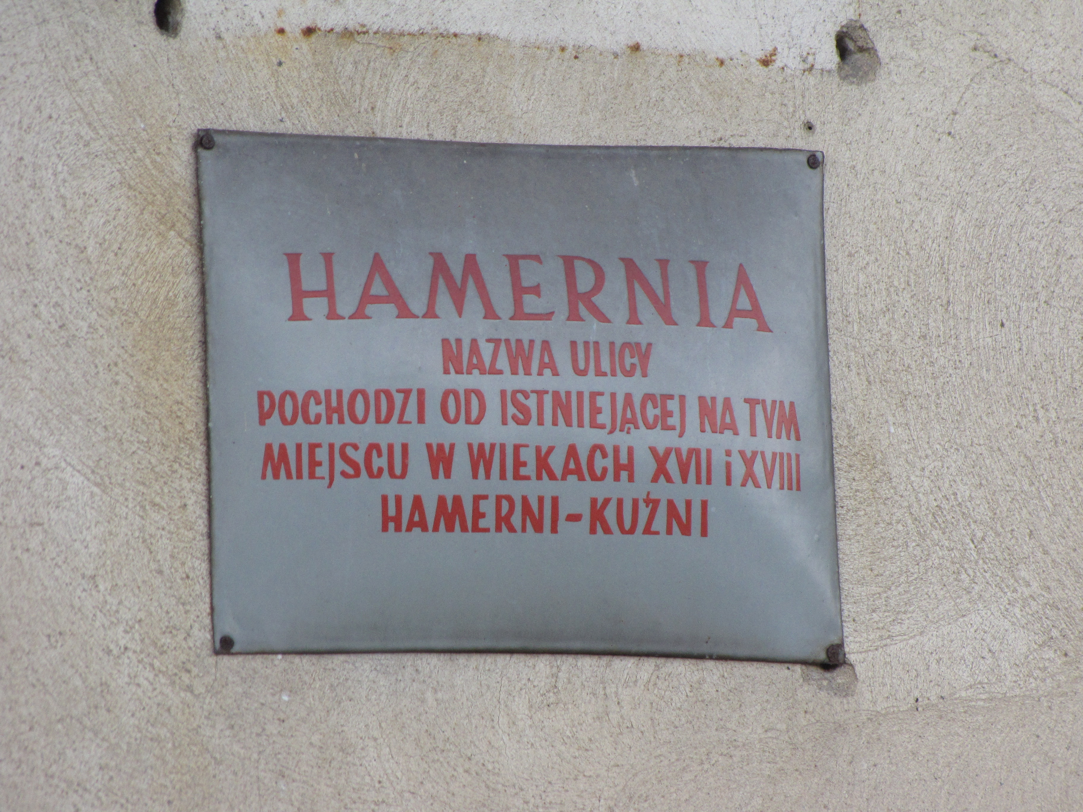 Plaque with inscription saying: "Hamernia. The street name comes from a forge-smithy, which existed here in the 17th and 18th century", on a building at Hamernia street no. 39, subdivision Widok-Zarzecze, District VI Bronowice, Kraków, Poland